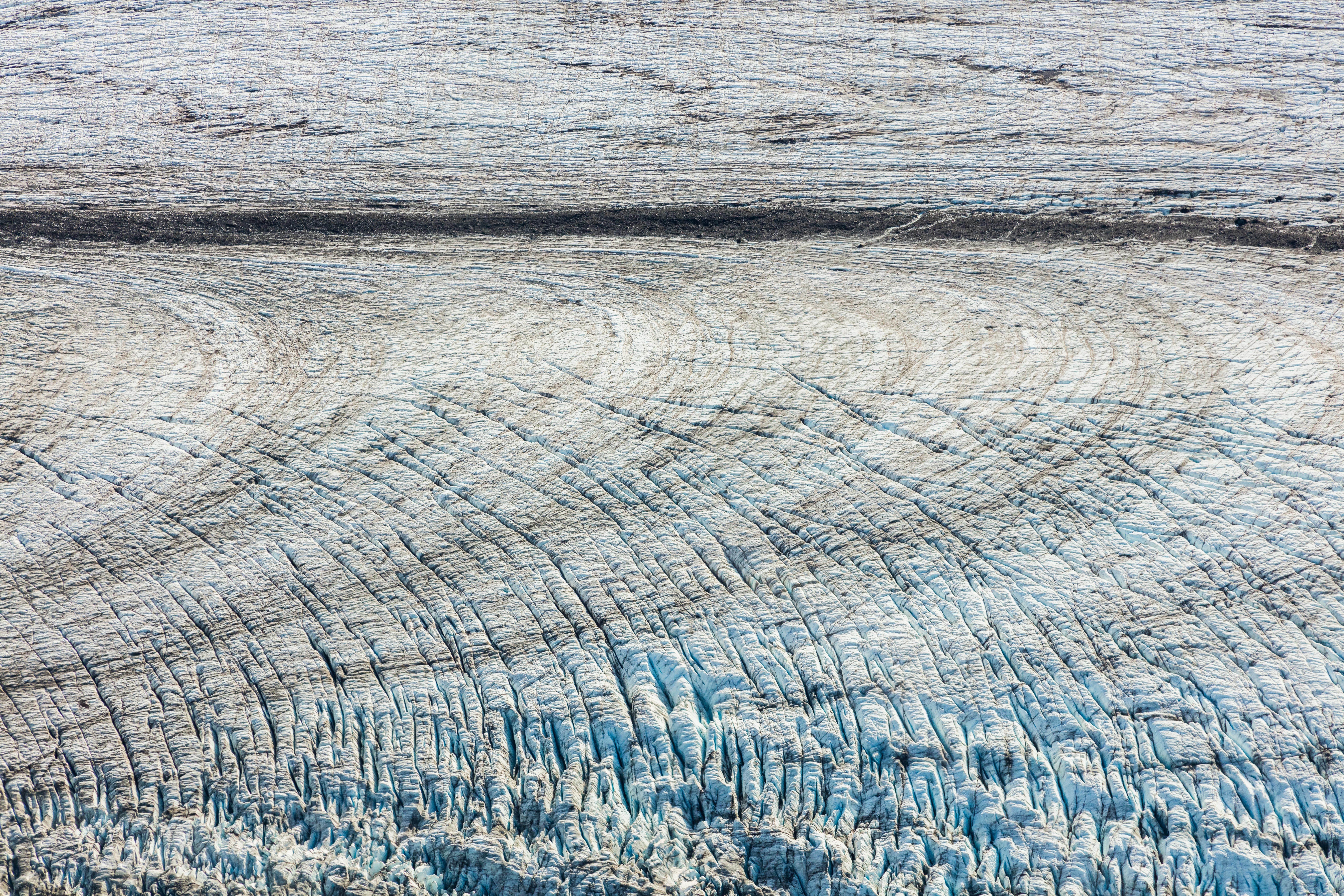 View of a glacier from the top in Chugach State Park, Alaska, United States.